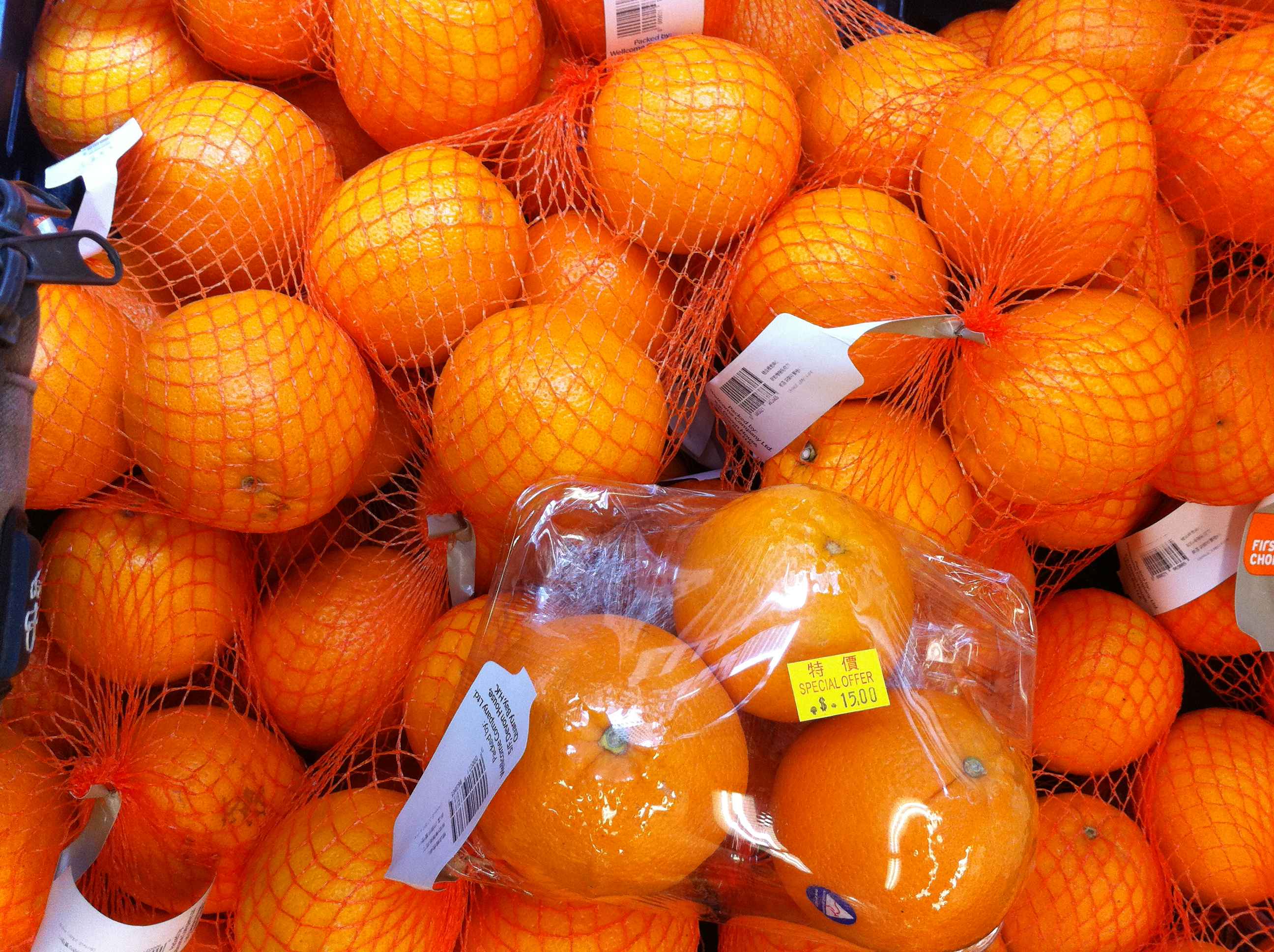 A bag of Oranges, Wellcome shop, Sheung Wan, Hong Kong